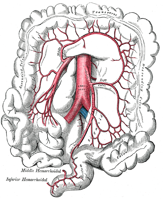 inferior mesenteric artery Gray's Anatomy - copyright expired thus public domain